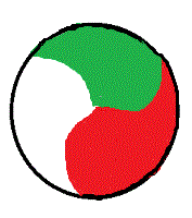 imaginary rowndel of an independent Welsh Airforce